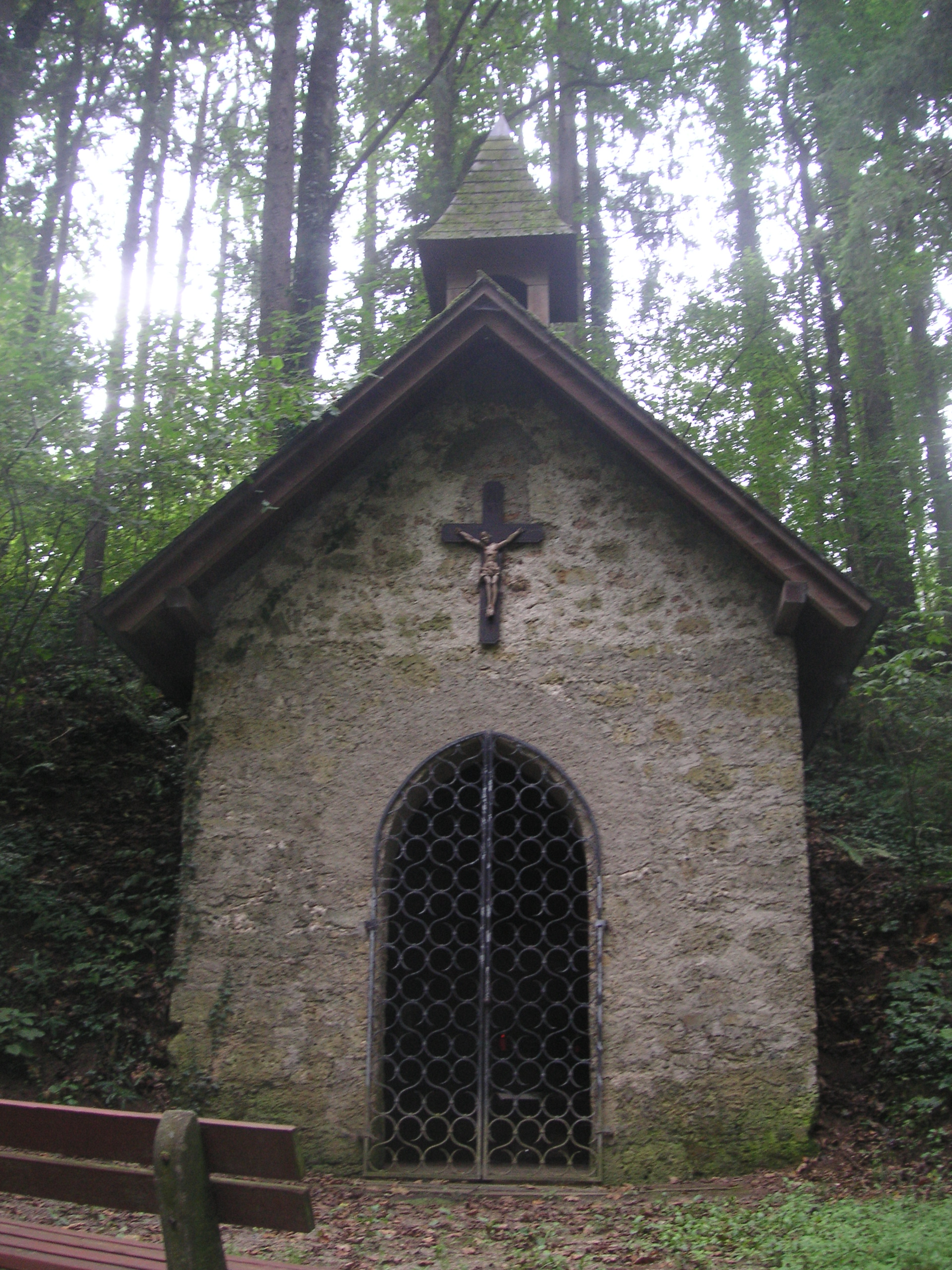 The Lourdes grotto in Stiwoll, Styria, Austria